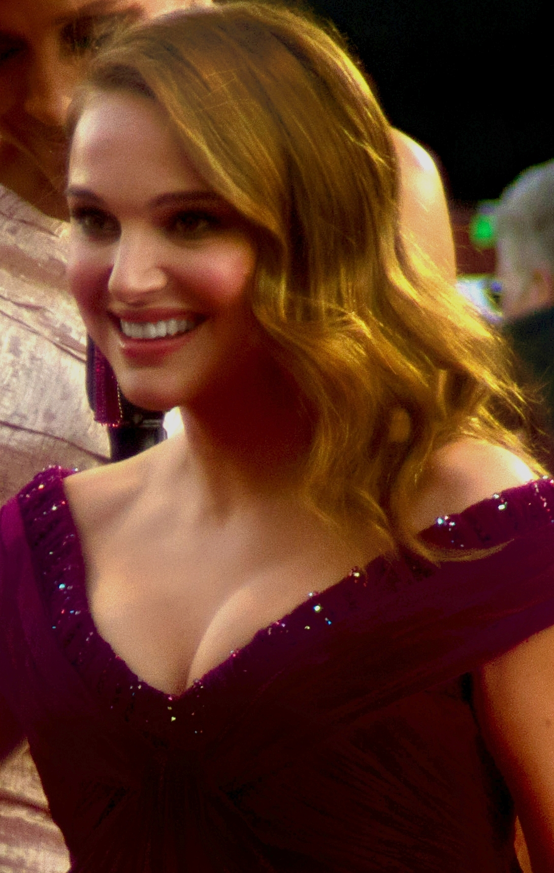 Actress Natalie Portman at the 83rd Academy Awards.